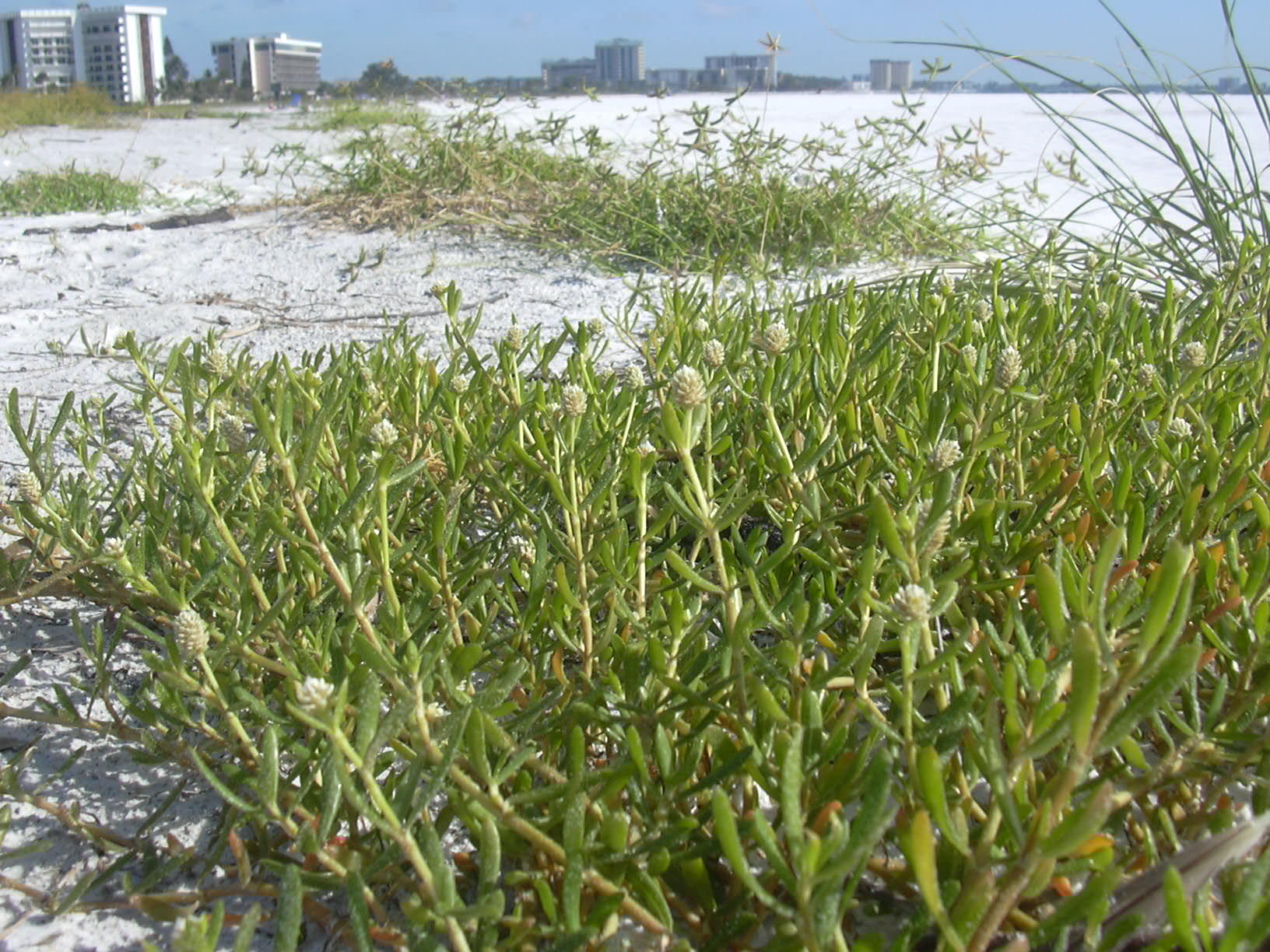 Dactyloctenium aegyptium (with Philoxerus vermicularis). Location: Florida, Lido Beach